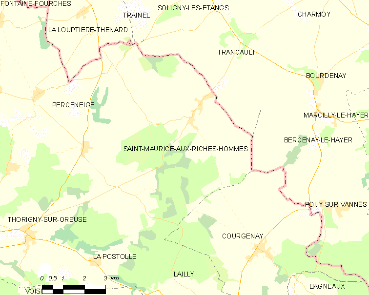 Map of French municipality Saint-Maurice-aux-Riches-Hommes